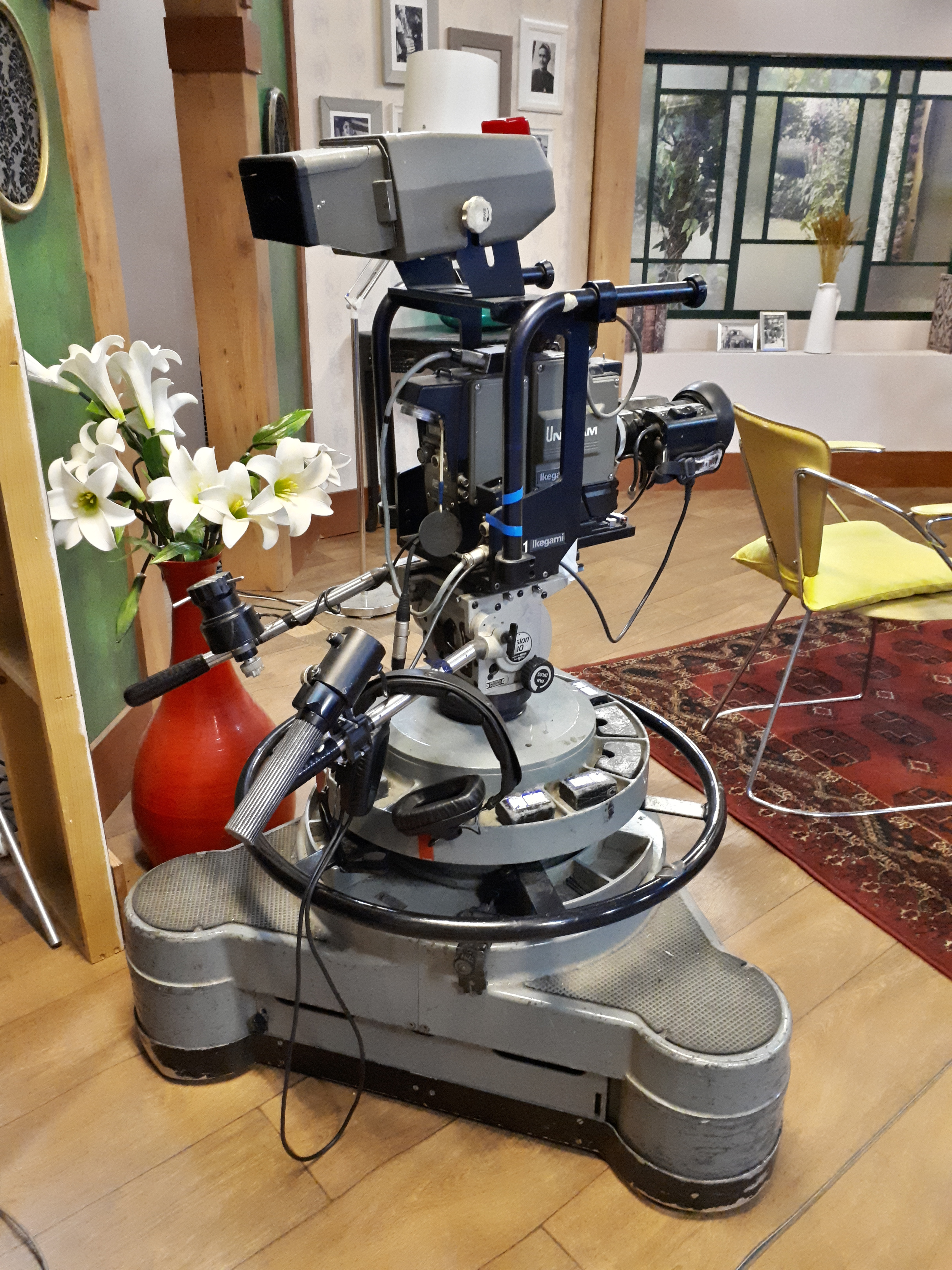 Television Studios of IETV. Tel Aviv. April 2018